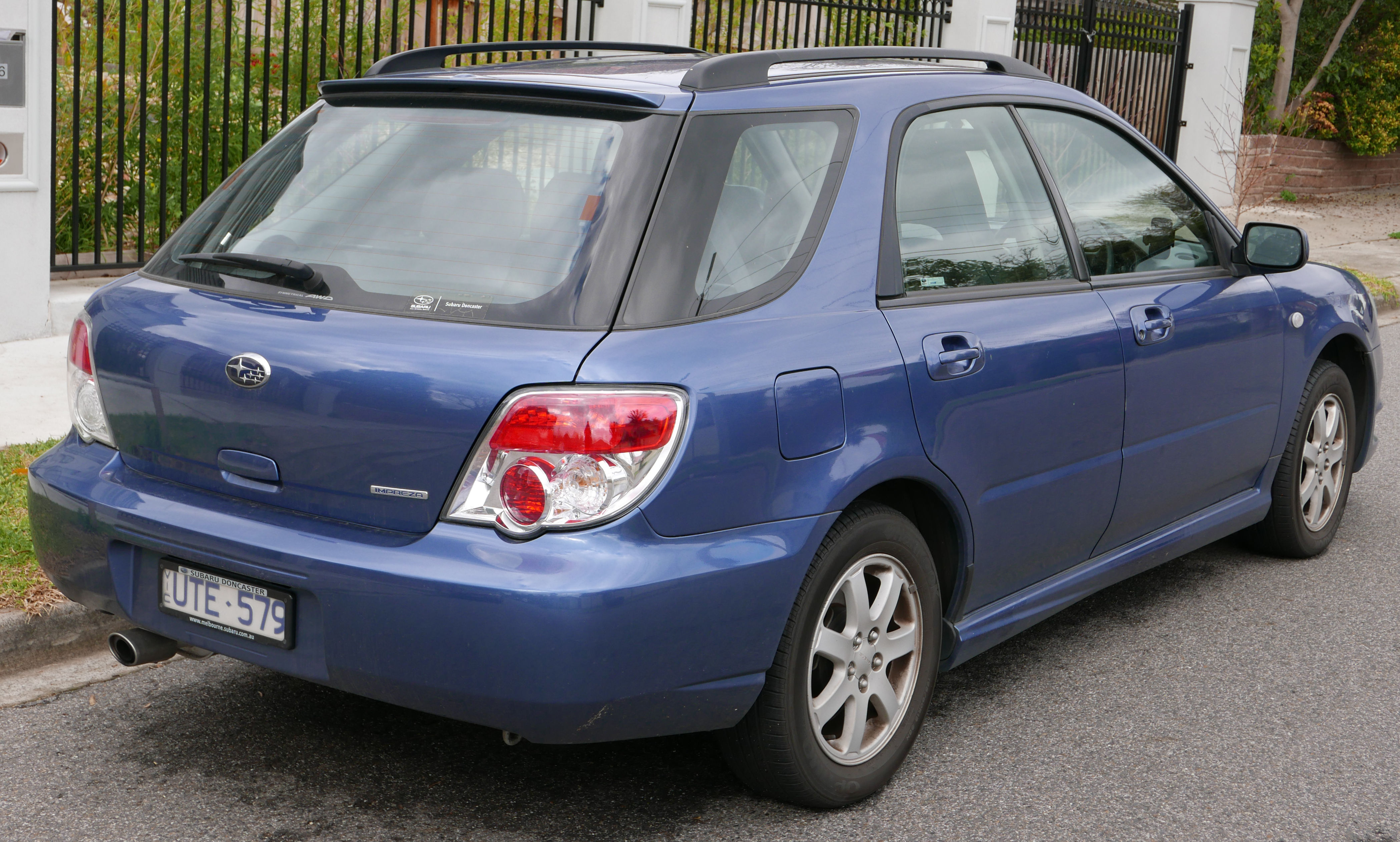 2007 Subaru Impreza (GG9 MY07) Luxury hatchback. Photographed in Ivanhoe, Victoria, Australia. Vehicle registration enquiry resultsJurisdictionVictoriaRegistrationUTE579Chassis codeJF1GG9KR57G038457Engine codeD046732Compliance date2007-03Year of manufacture2007